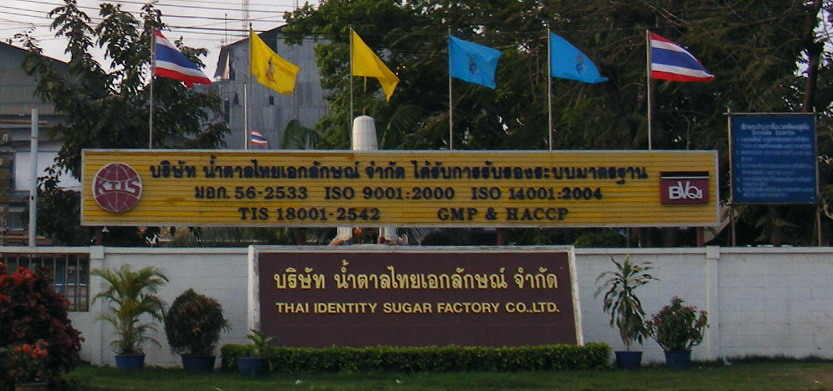 THAI IDENTITY SUGAR FACTORY CO.LTD. in Khung Taphao subdistrict, Mueang Uttaradit, Uttaradit Province, Thailand.